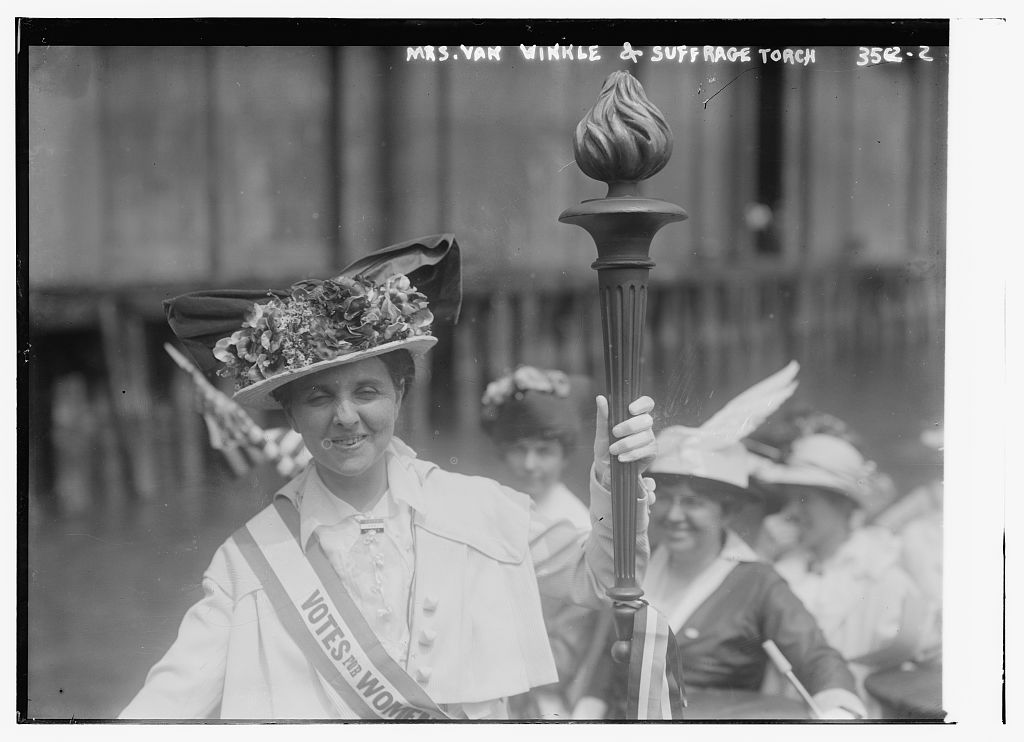 Title: Mrs. Van Winkle and Suffrage torch Abstract/medium: 1 negative : glass ; 5 x 7 in. or smaller.